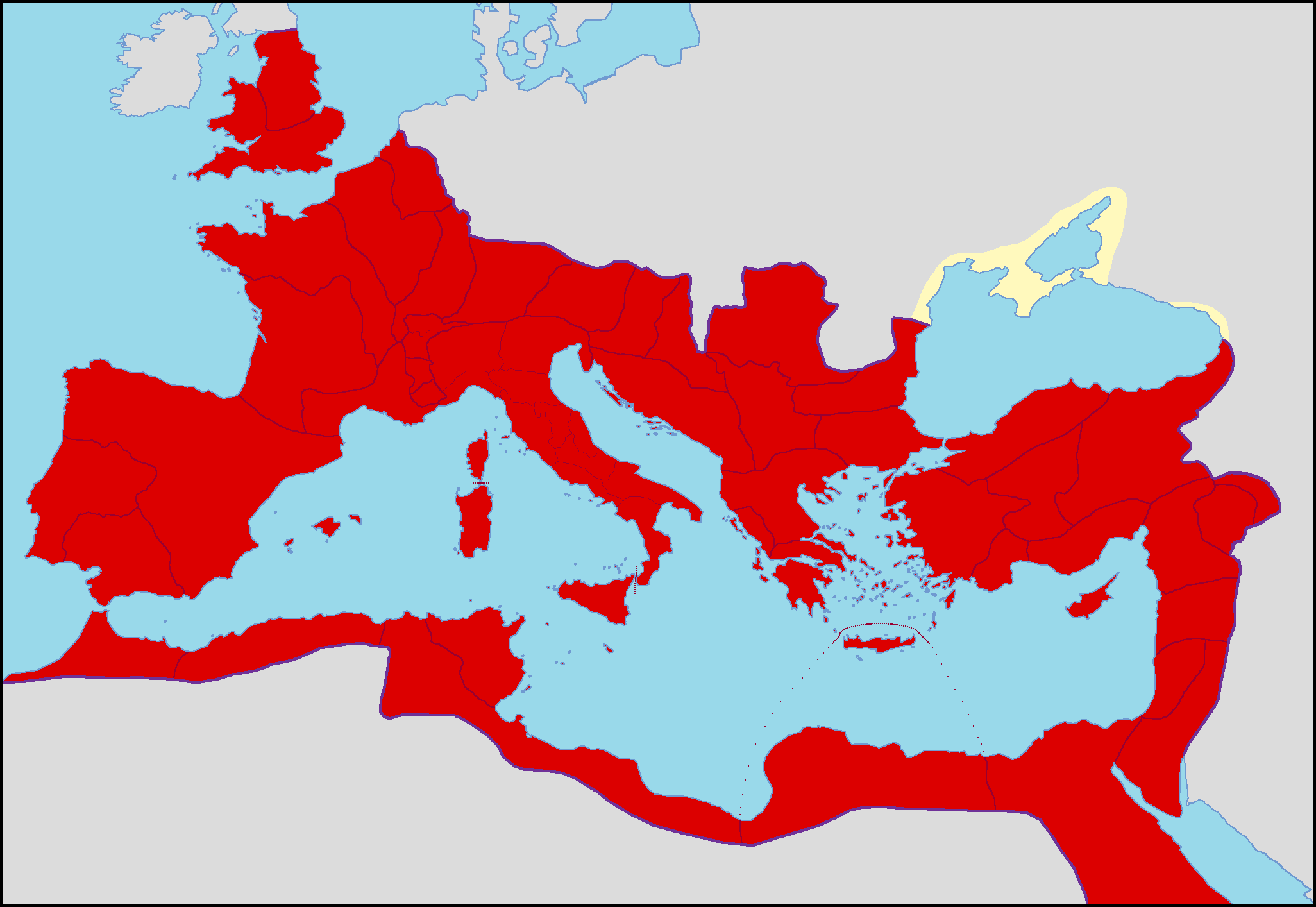 Map of the Roman Empire in 210 AD